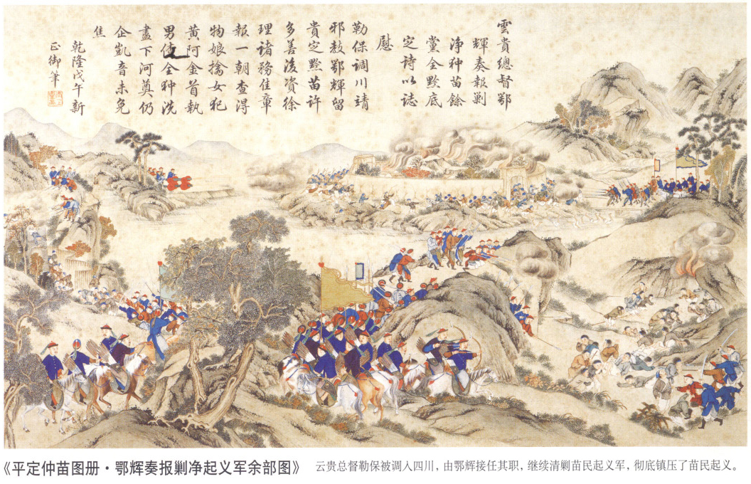 A scene of the Manchu Qing Dynasty Campaign against the Miao, in Beiqing and Balin, Yunnan in 1795.